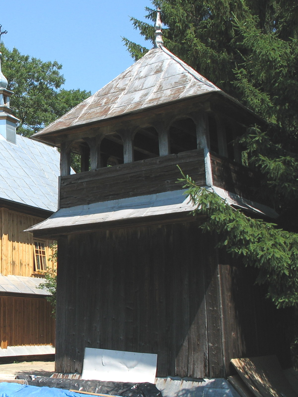 Former Greek Catholic church (now Roman Catholic church) in Stubienko, Poland